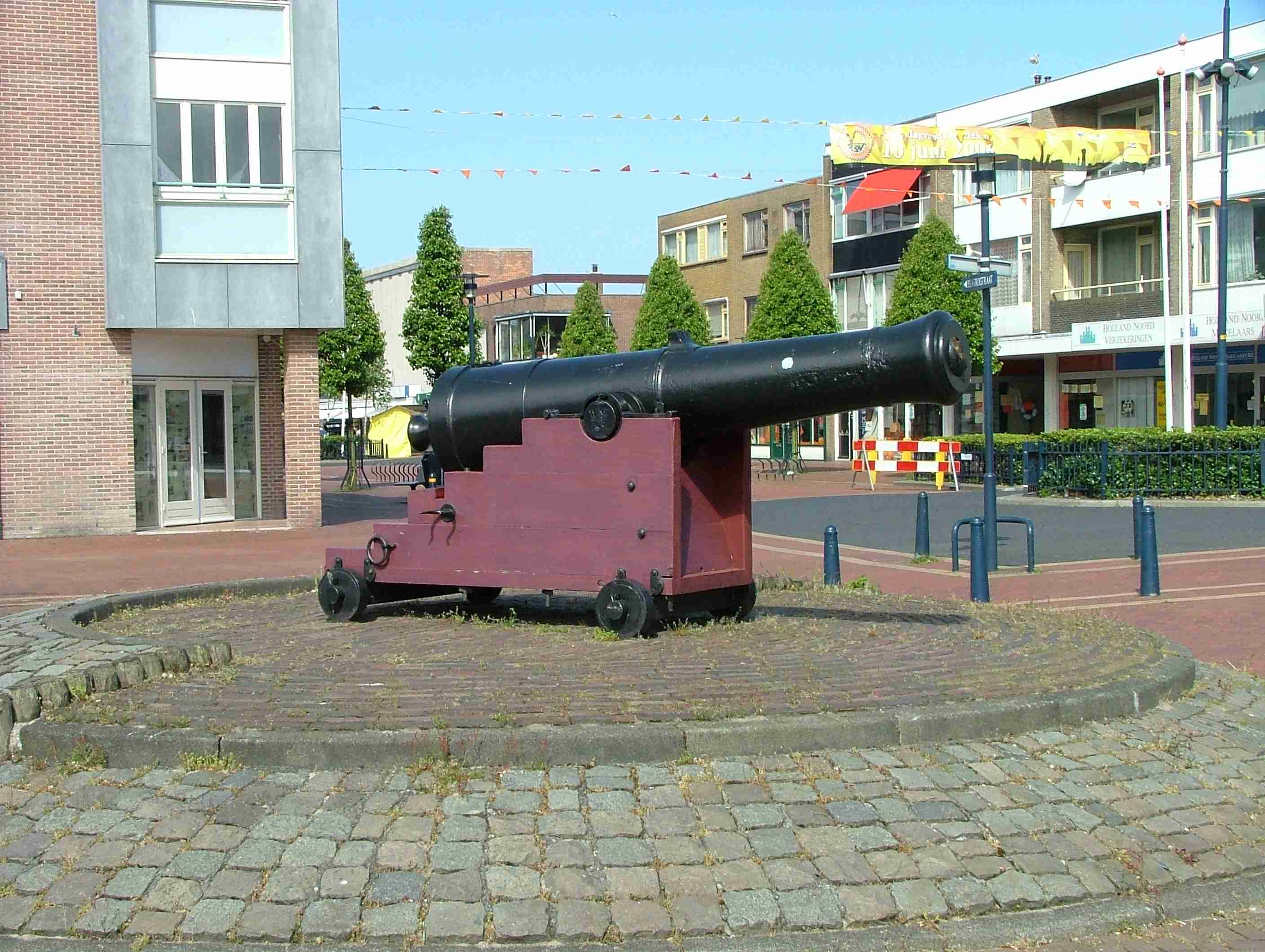 cannon in Den Helder, The Netherlands Eigenfoto vom 28.05.2006